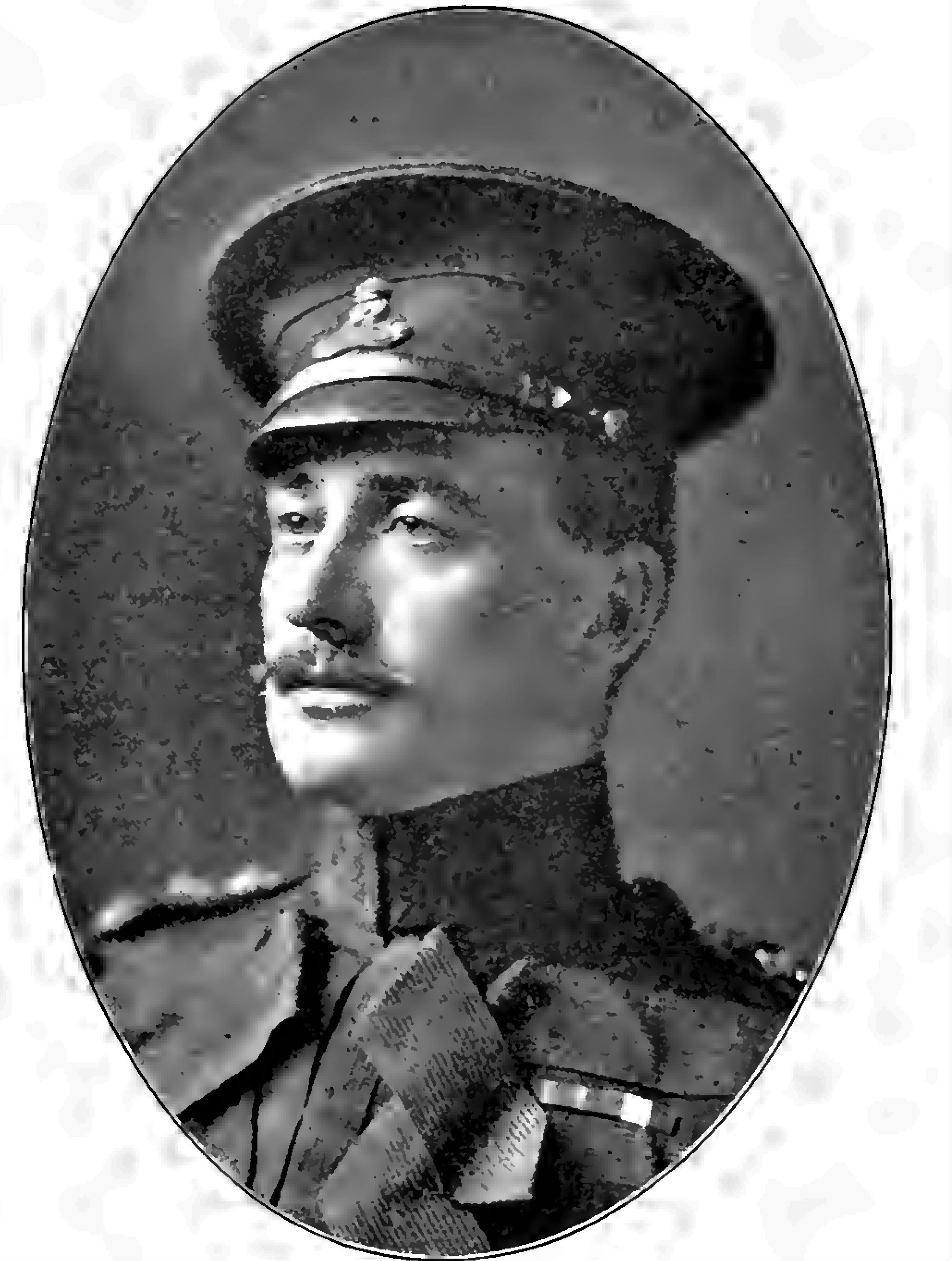 Picture of Major James H. Elmsley